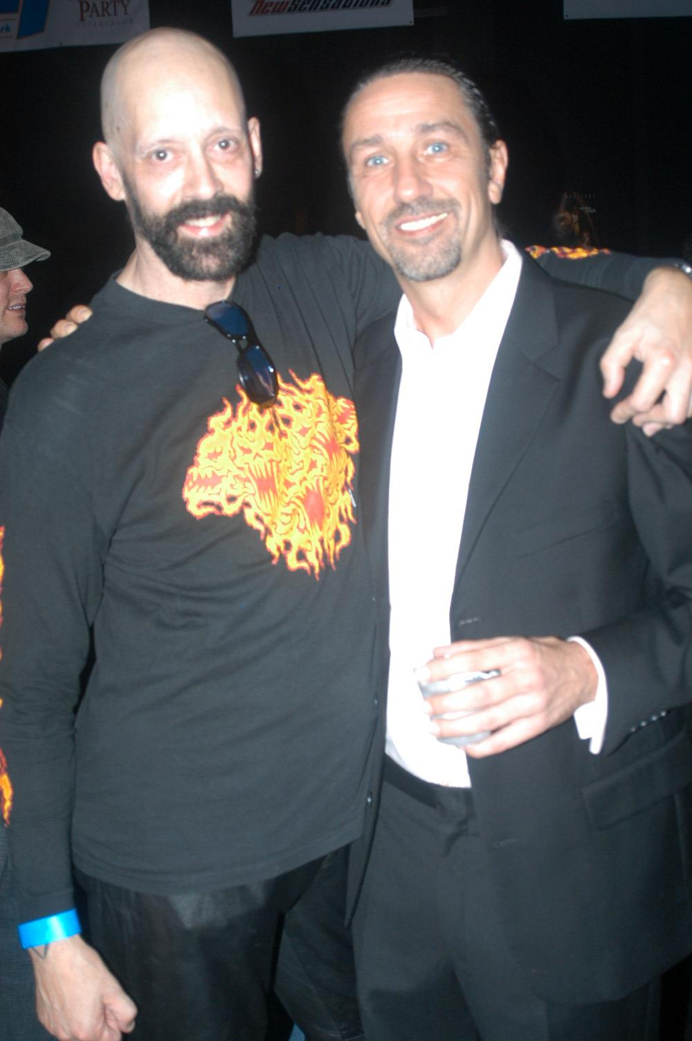 Mike Ramone, Steve Holmes at West Coast Productions Party.